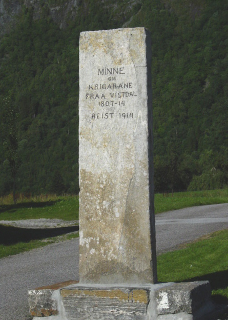 From Nesset and the stone war-memory in Vistdal